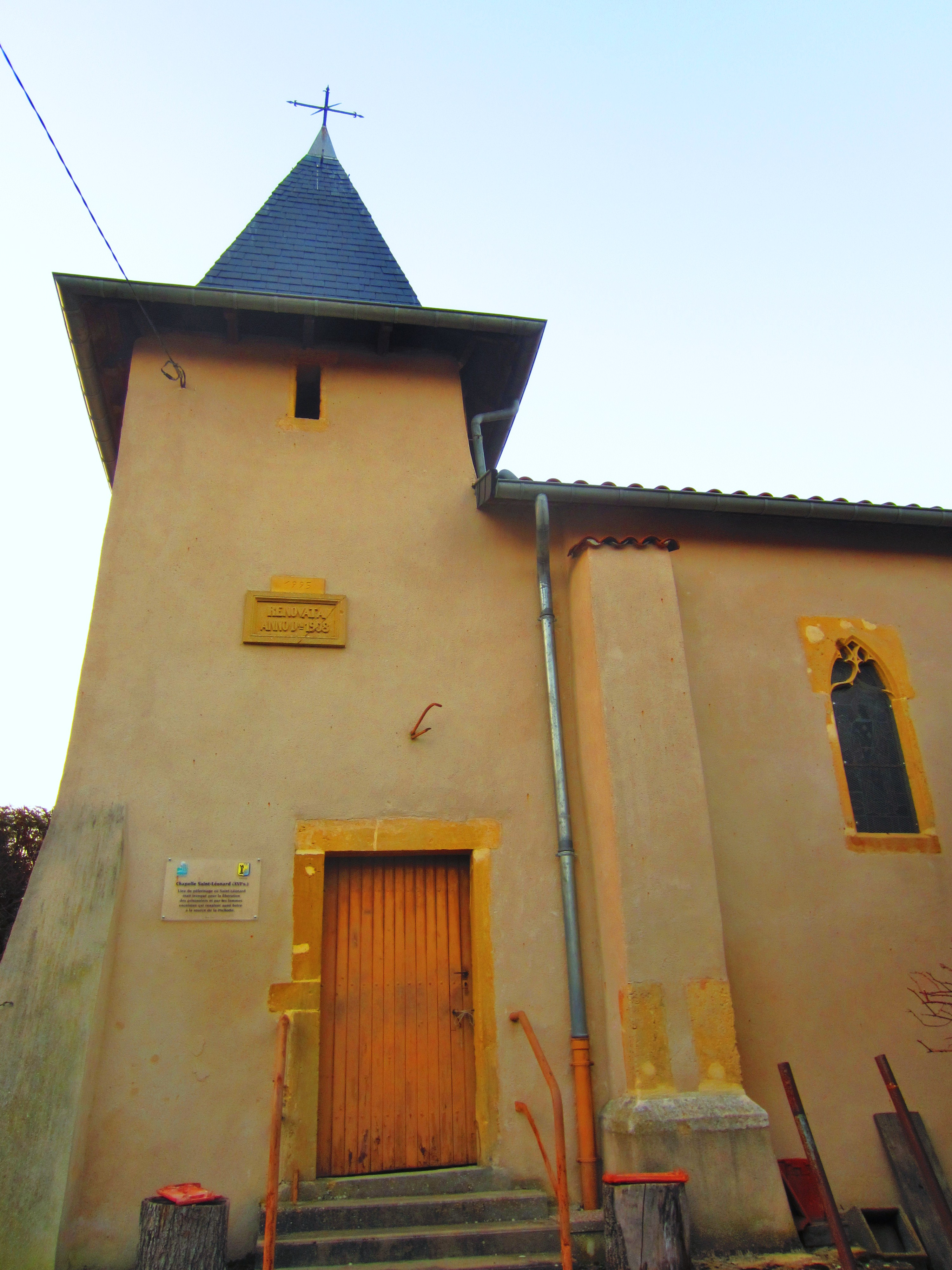 Marieulles Vezon chapel